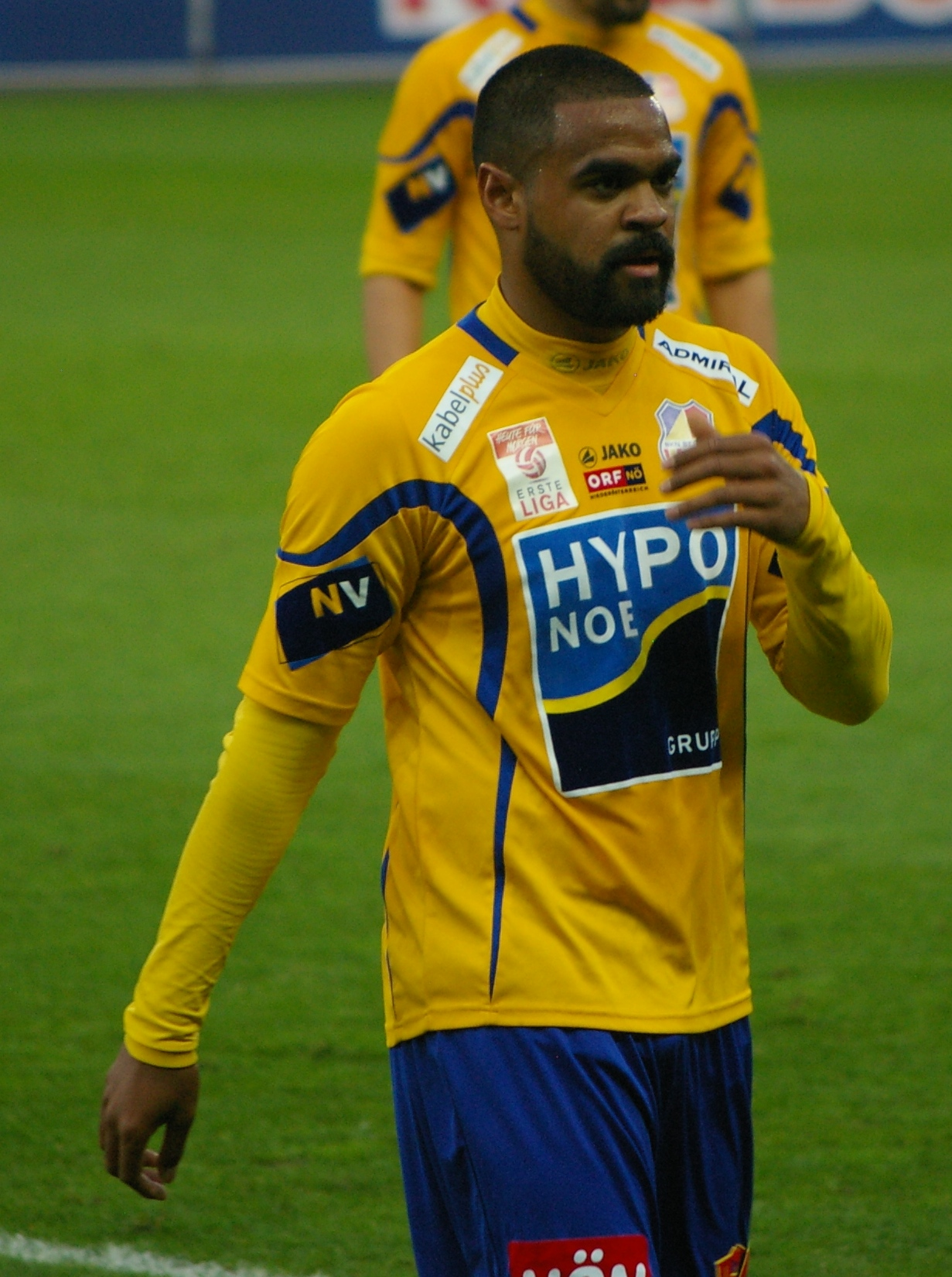 league match Austria 2nd league